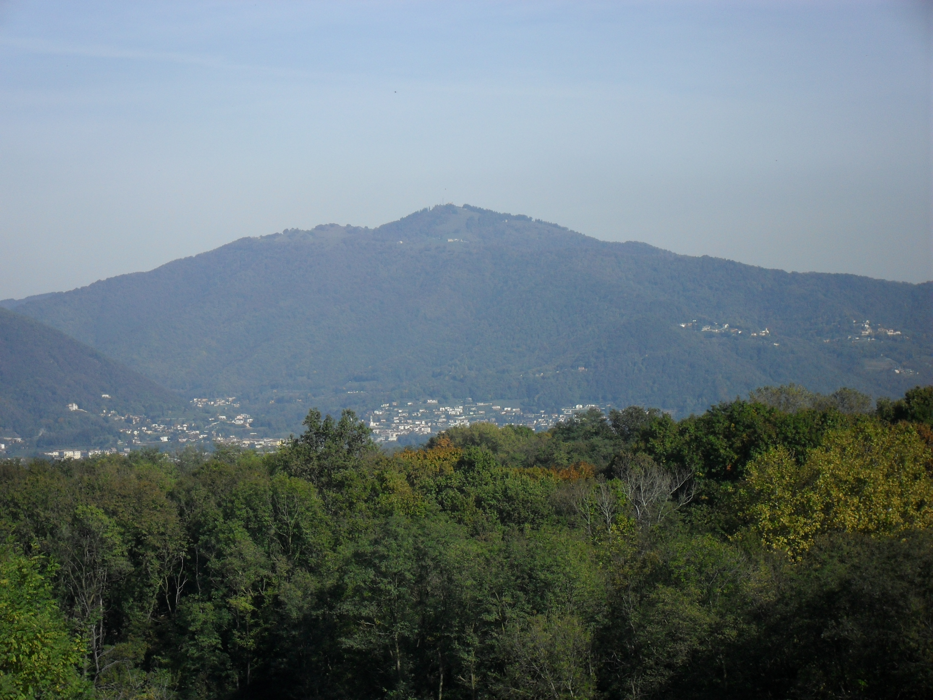 View eastward to Mount Bisbino, from Bizzarone, Italy